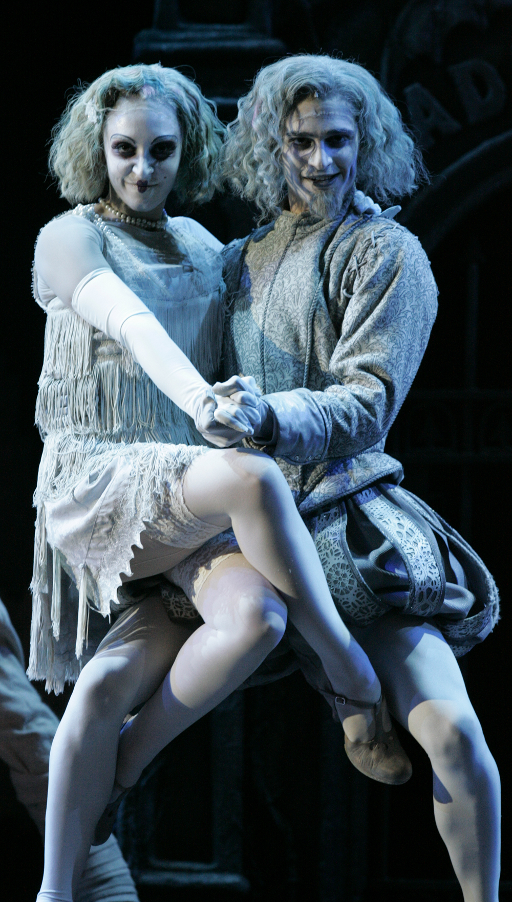 The Addams Family Media Event